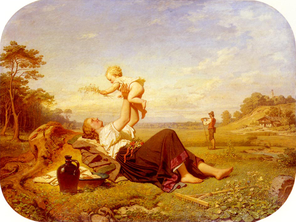 Hermann Wilhelm Soltau, "A little distraction", oil on canvas (5' 11.26" x 4' 5.54")